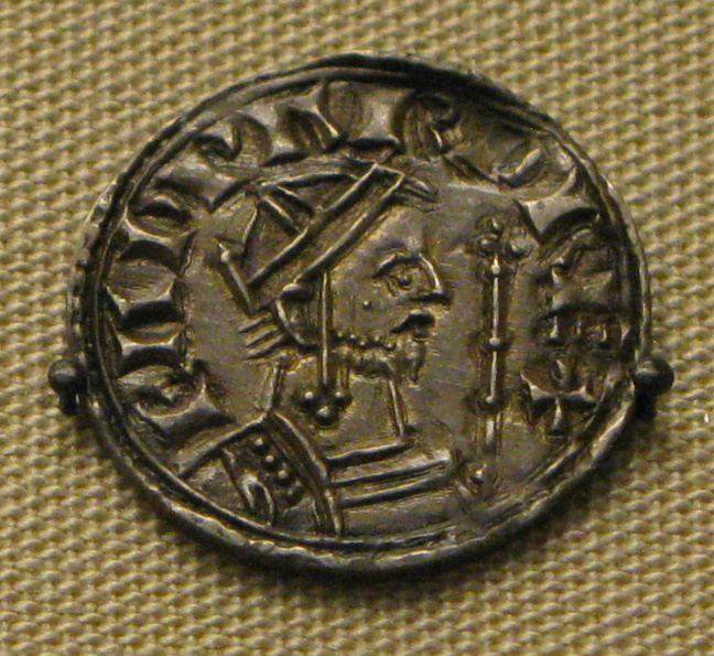 Silver coin of Edward the Confessor. Coin is property of the British Museum. Photograph taken by User:Saforrest